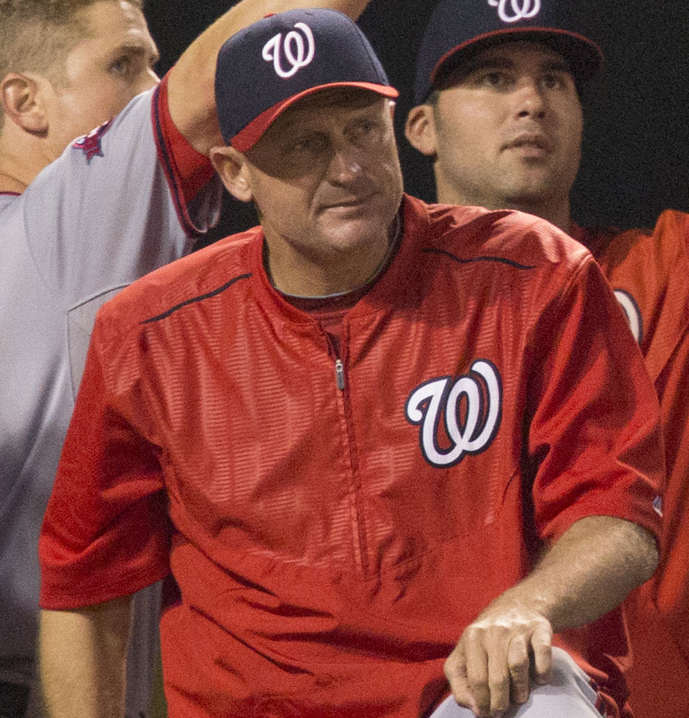 Bryce Harper of the Washington Nationals returns to the dugout at Camden Yards in Baltimore during a game in 2015.